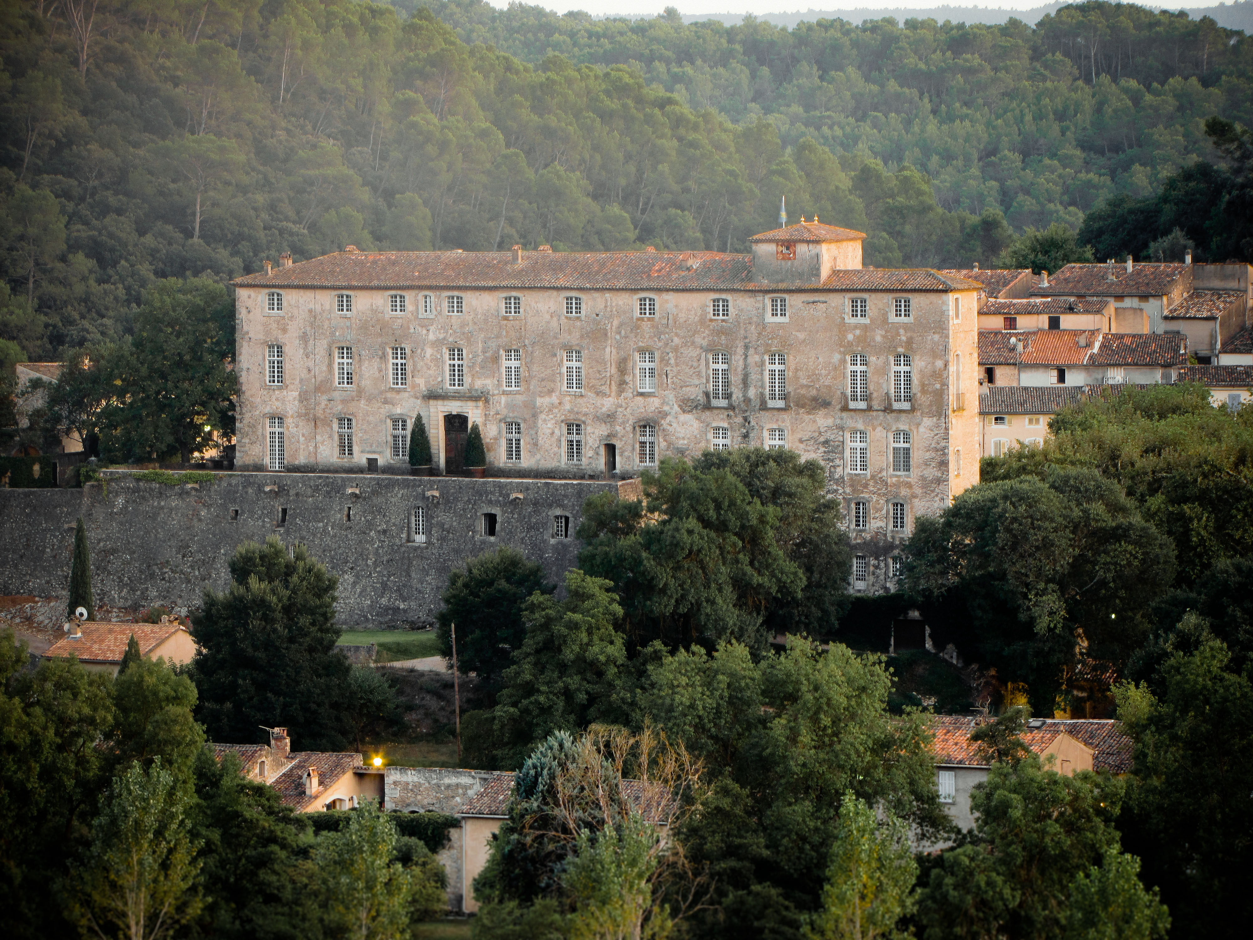 Entrecasteaux is famous for its castle on the top of the village. .